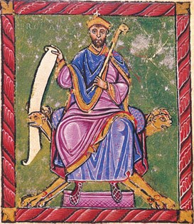 Fruela II